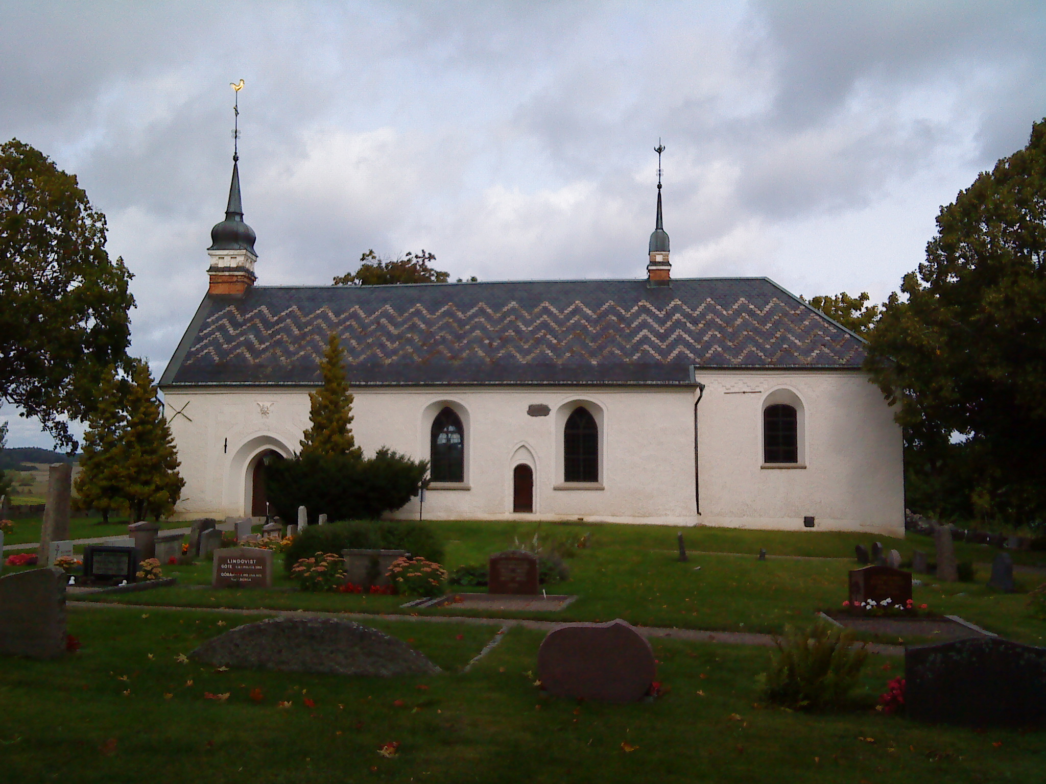 Dalby church, diocese of Uppsala